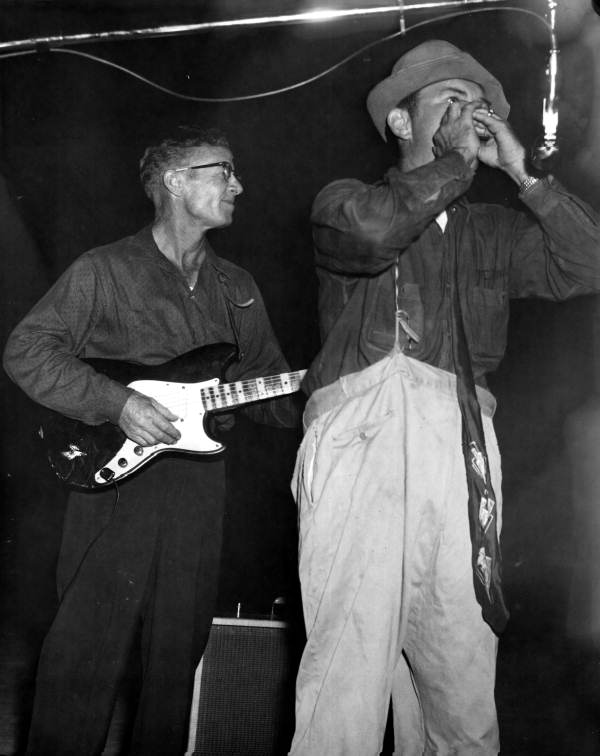 Local call number: fa3998 Title: [Leroy McDaniel, right, performing at the Florida Folk Festival : White Springs, Florida] Personal Author: Leahey, Robert, Collector 1912-1969. Date: 195-. Physical descrip: 1 photoprint : b&w ; 8 x 10 in. Series Title: ( Repository: 500 S. Bronough St., Tallahassee, FL 32399-0250 USA. Contact: 850-245-6700. Persistent URL